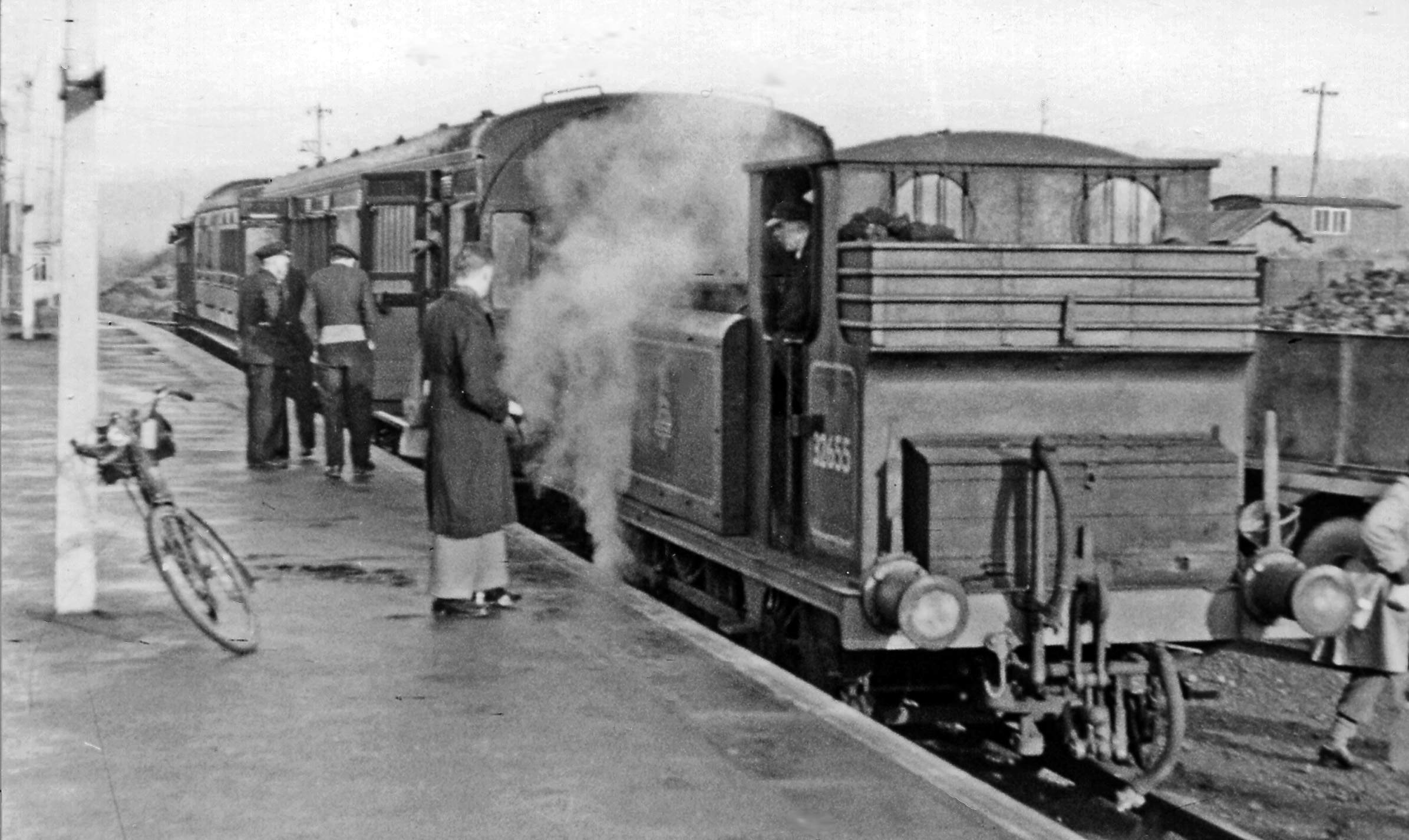 Last Train on the K&ESR at Robertsbridge. In the branch platform at Robertsbridge on the Last Day of the original Kent & East Sussex Light Railway (2 January 1954) is the 08.50 from Headcorn, with ex-LB&SC A1X 0-6-0T No. 32655. (See also TQ7323 : Robertsbridge Station, with Up Hastings express and K&ESR train).